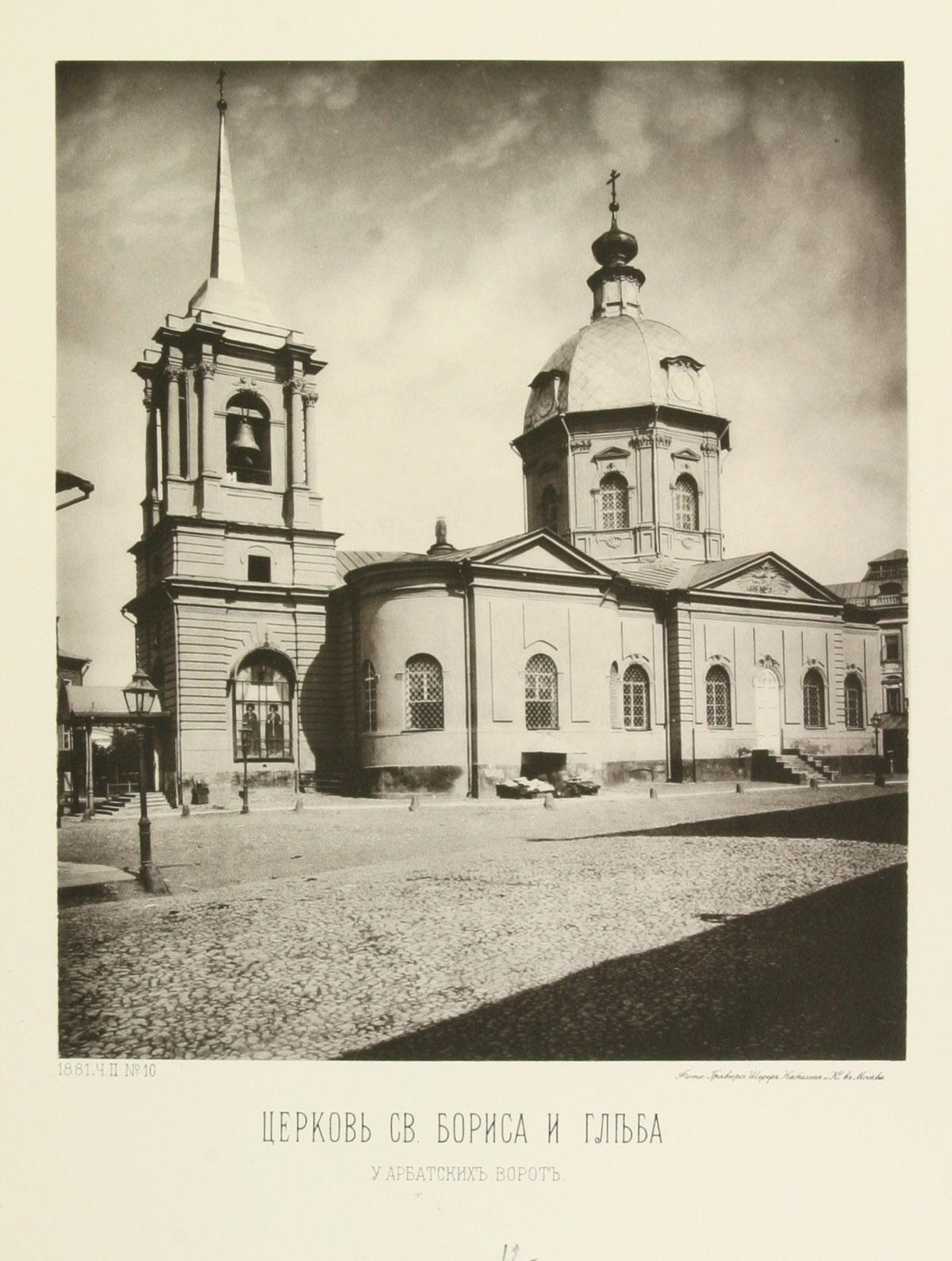 Церковь Бориса и Глеба у Арбатских ворот Church of Boris and Gleb, Arbatskie Vorota Square, Moscow. Demolished, then replaced with a partial replica in 1990s.